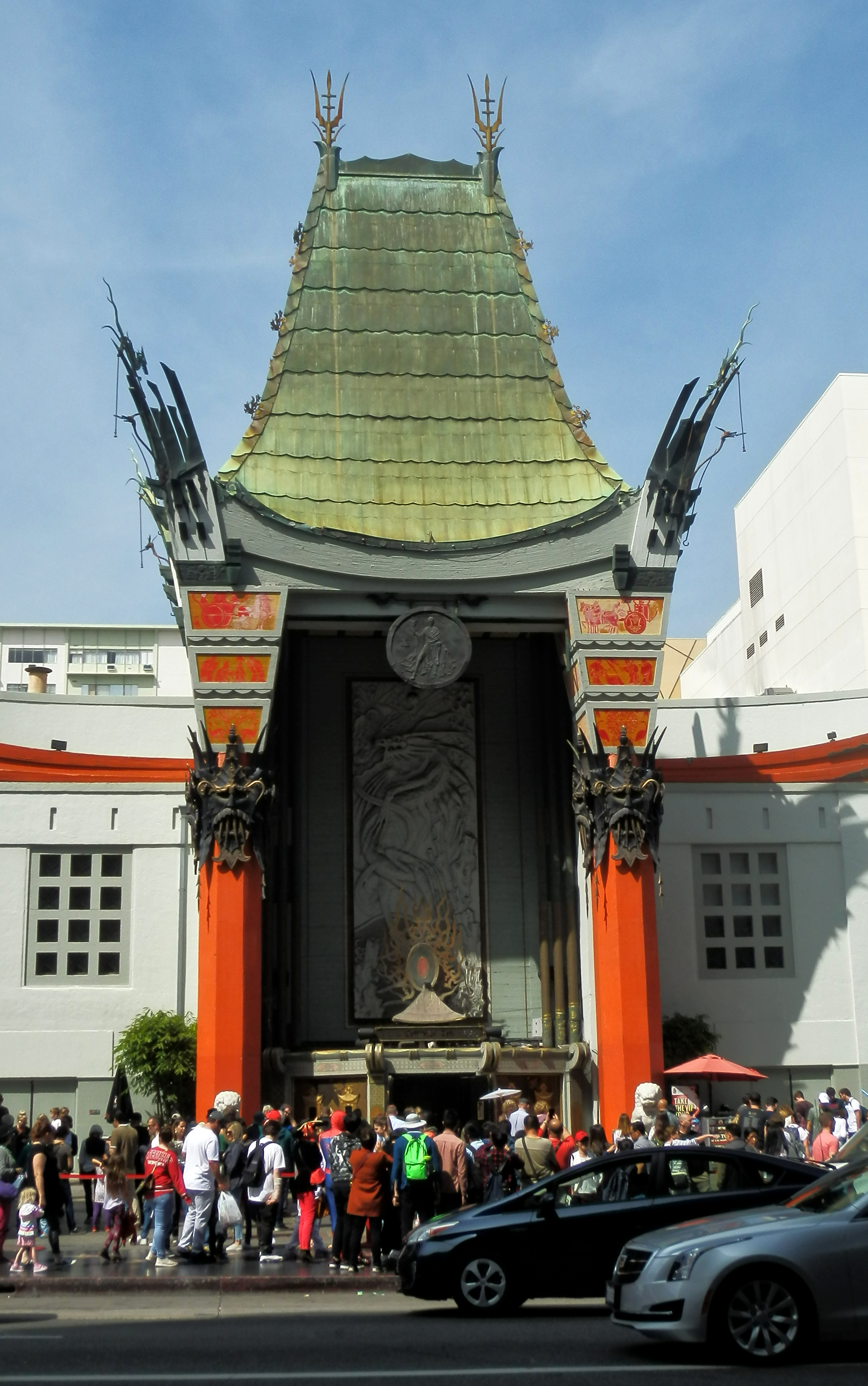 Hollywood Chinese Theatre